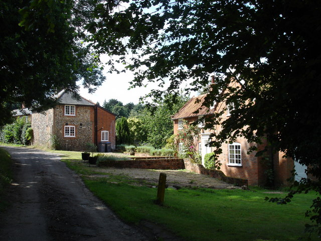 Eyke